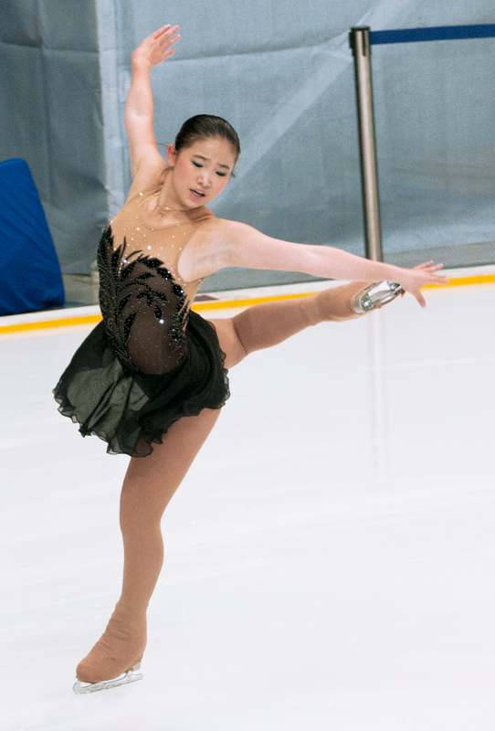 2012 Cup of Russia, short program.